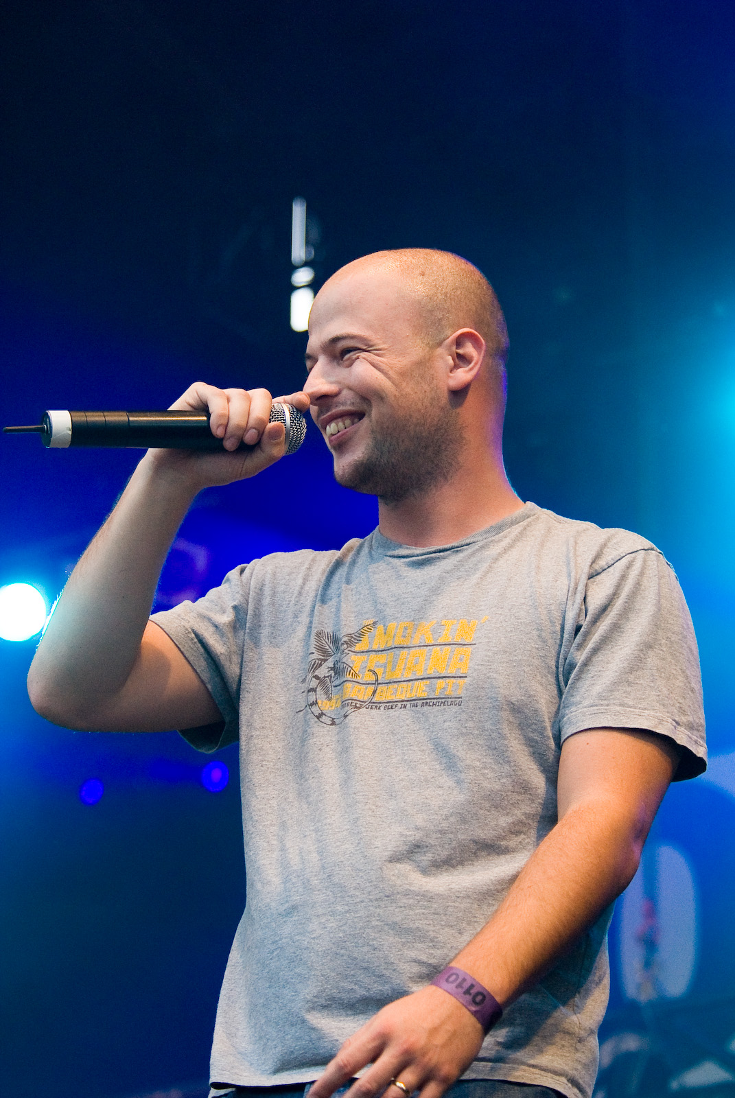 Flip Kowlier, 0110 concert on 1 November 2006 in Gent, Belgium